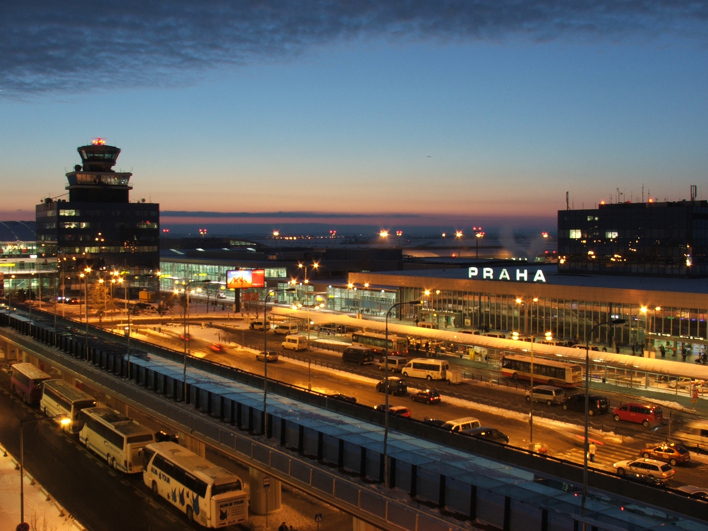 Ruzyně International Airport in Prague, Czechia in Winter 2005/2006, Terminal North 1 on the right, Connecting building in the middle and Terminal North 2 near its completion on the left.